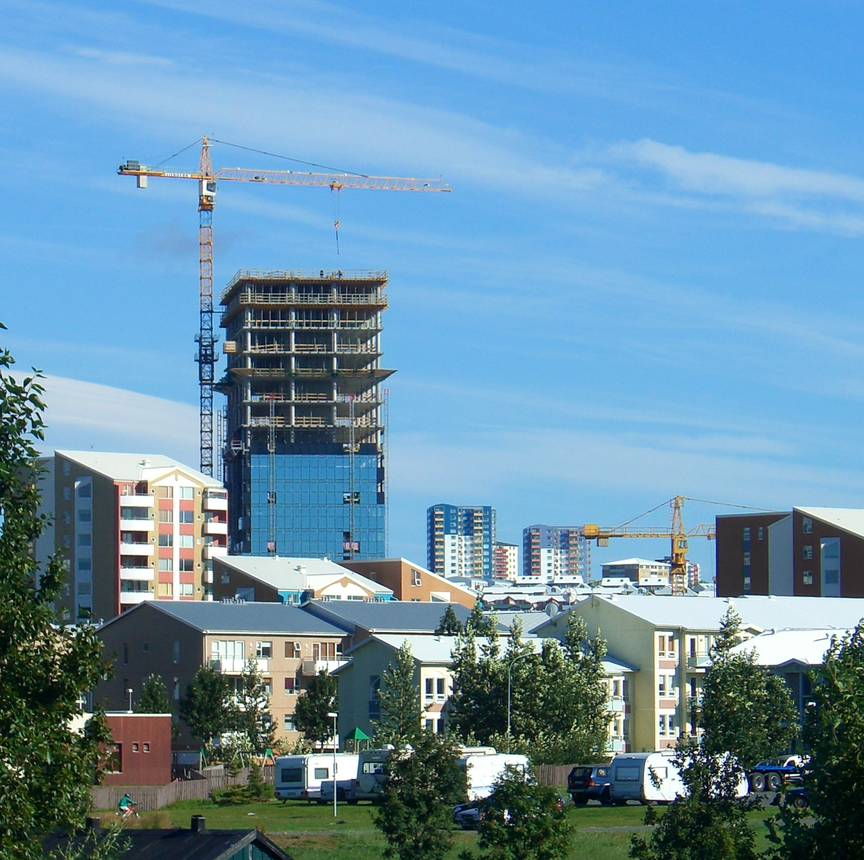 Smáratorg 3 in Kópavogur, Iceland under construction.